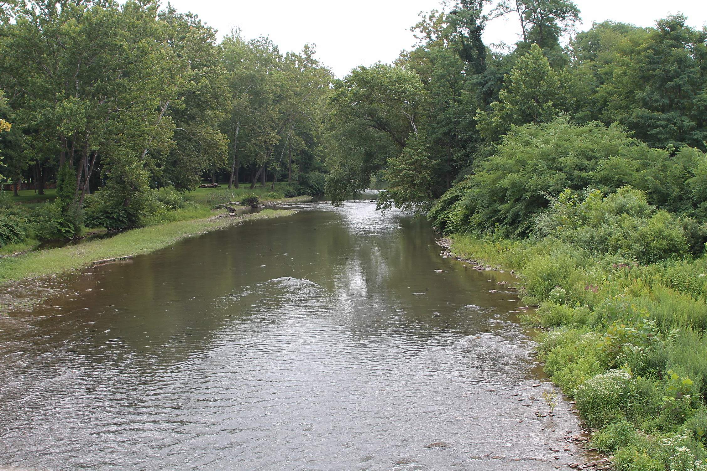 Muncy Creek looking upstream in Muncy Creek Township, Lycoming County, Pennsylvania